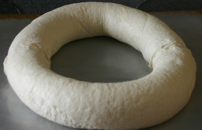 Recipe here-unbaked dough formed into ring Photo by Elizabeth (table4five) Website